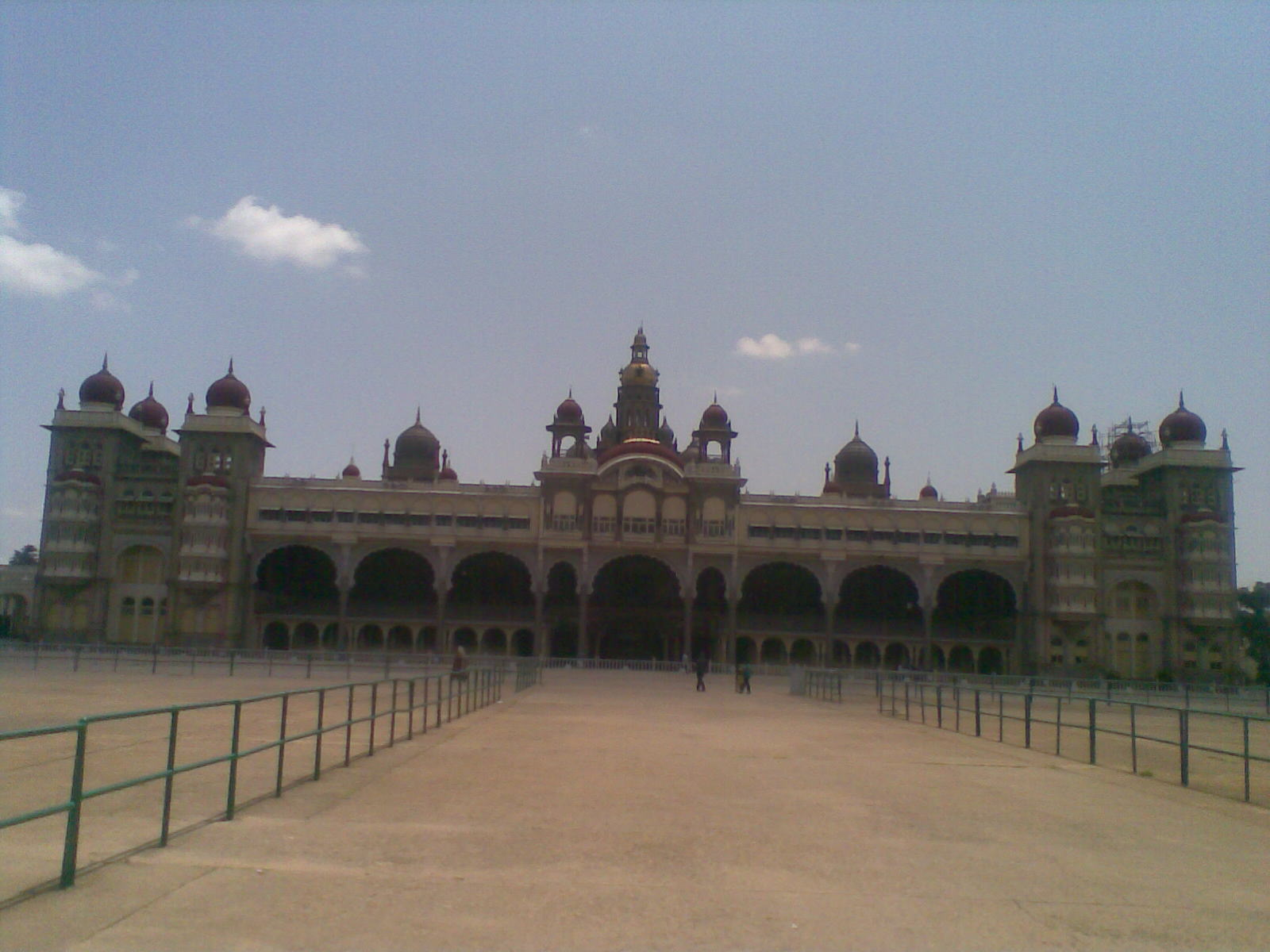 Mysore Place in India